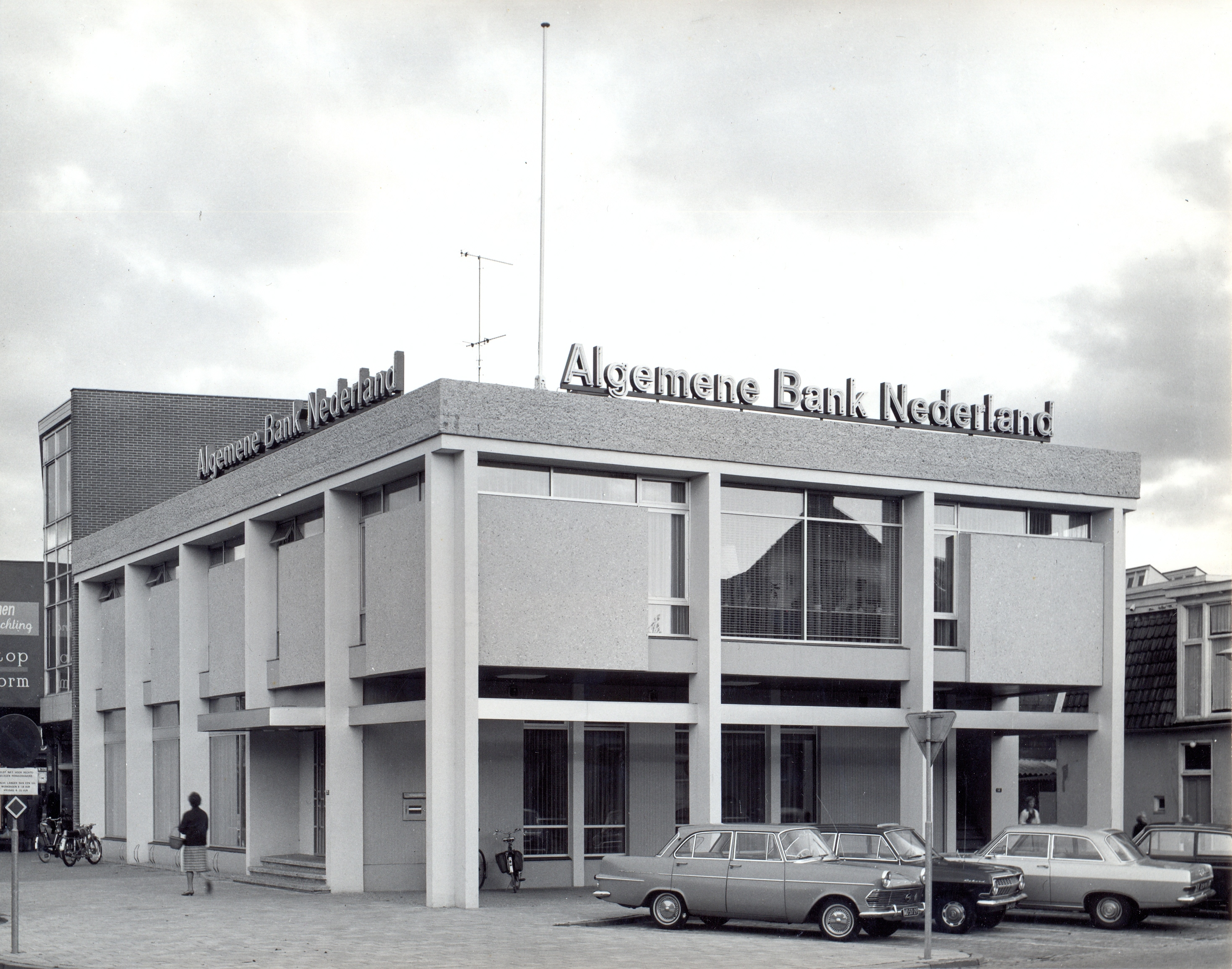 ABN-bank Assen by Dutch architect Lex Haak, 1965 (building since 2009 incorporated into Vanderveen shopping center)